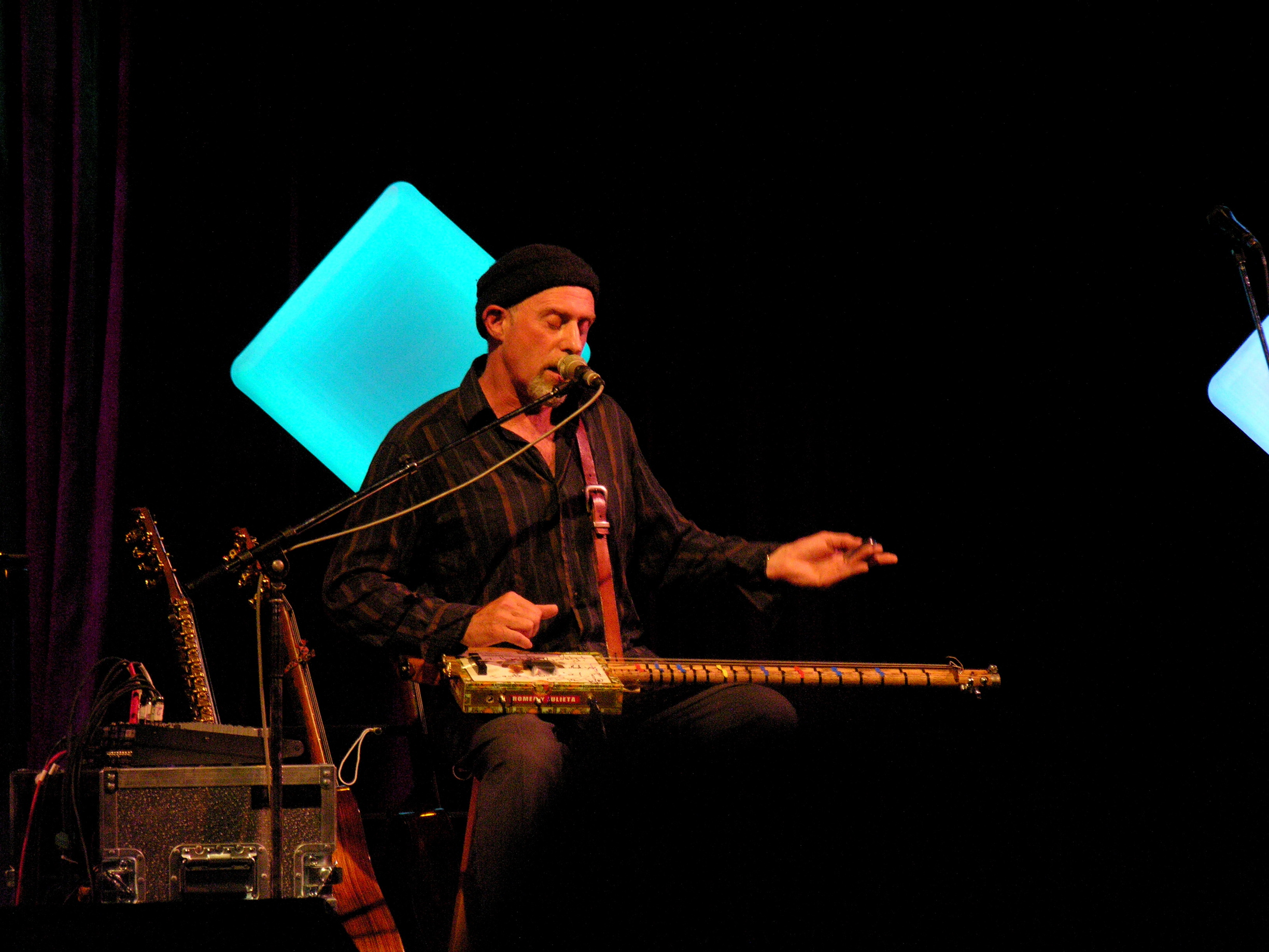 Harry Manx playing his cigar box guitar